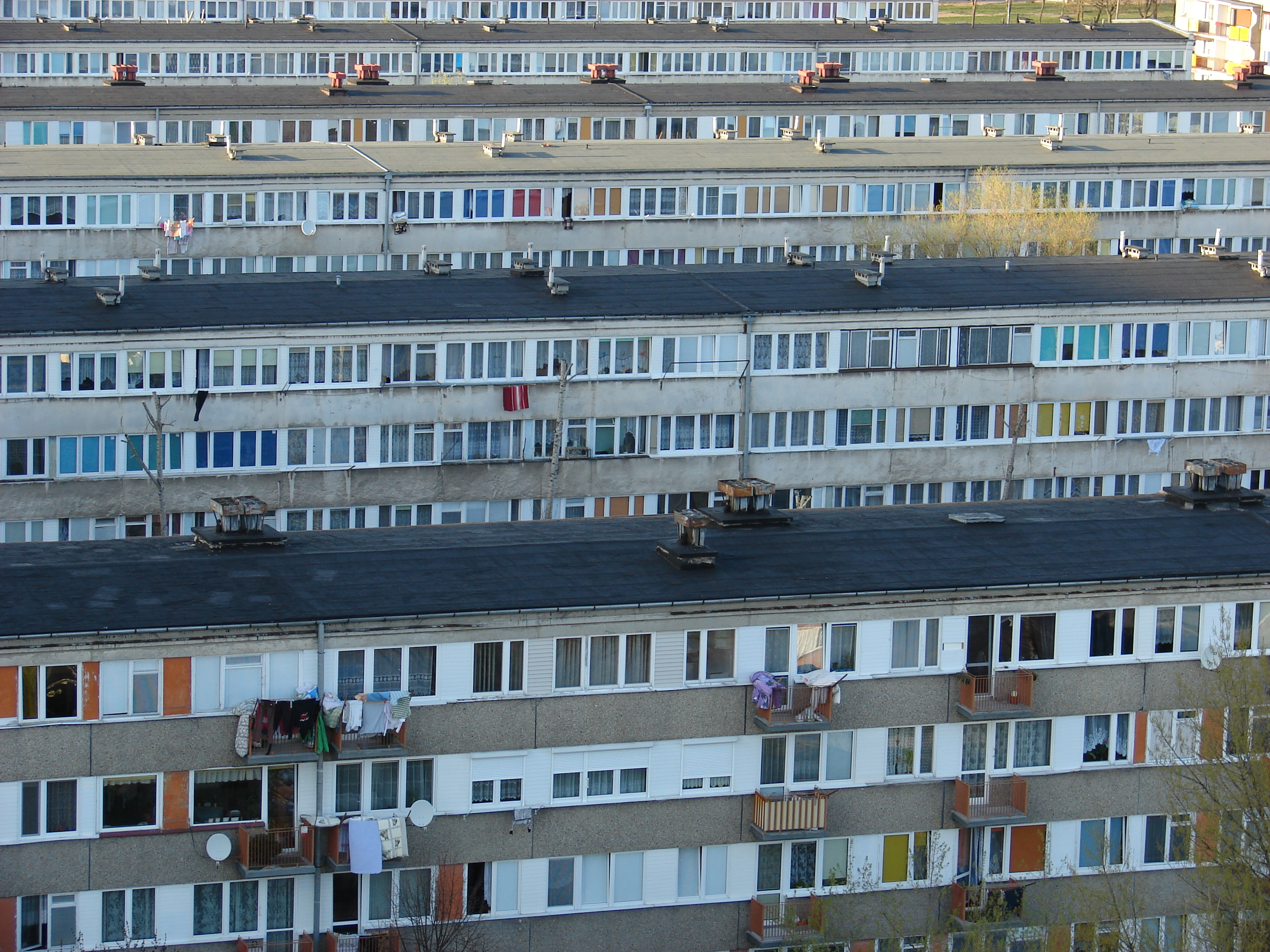 Konin - housing estate no.5